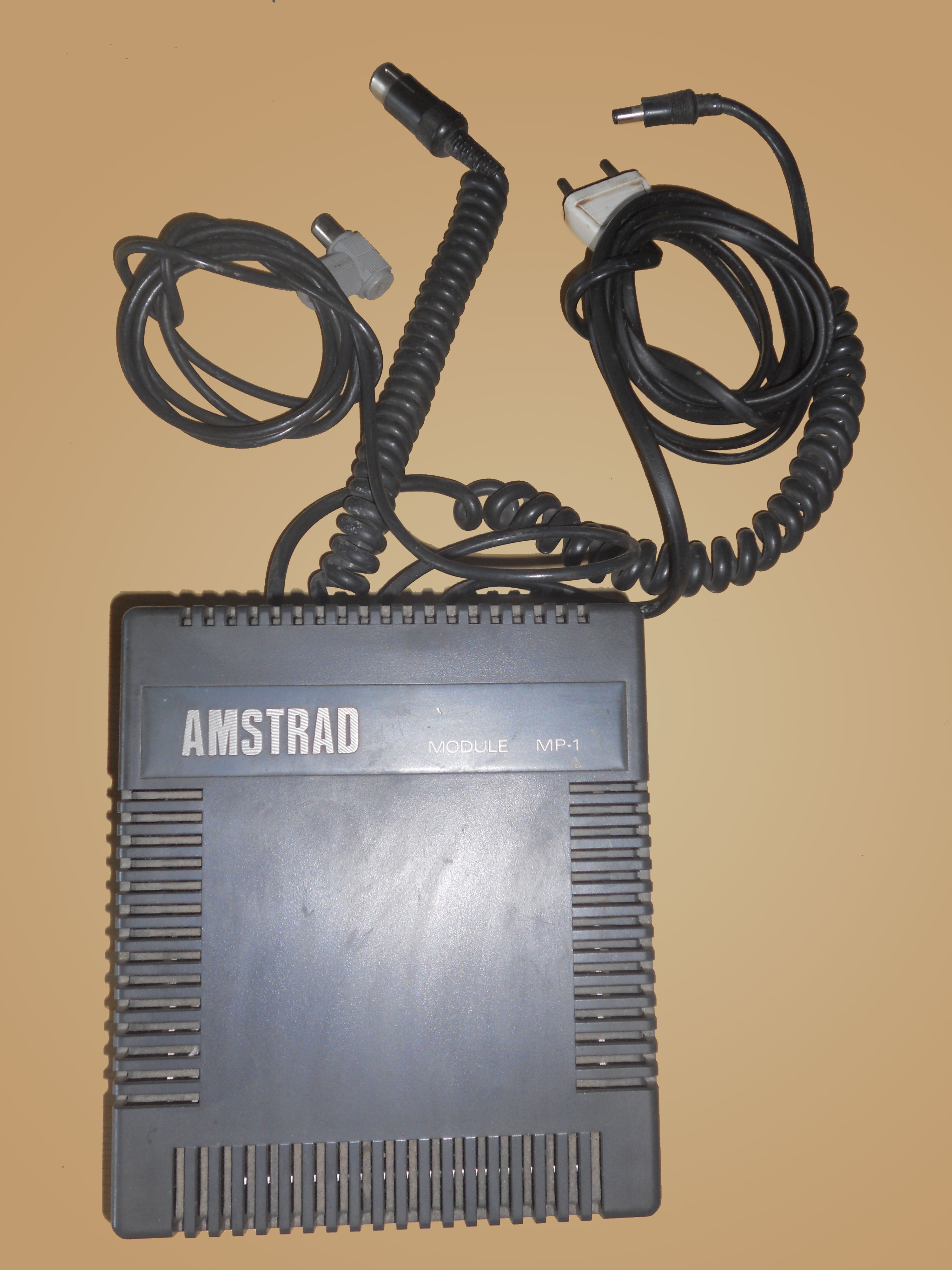 Amstrad MP-1 module for CPC 464